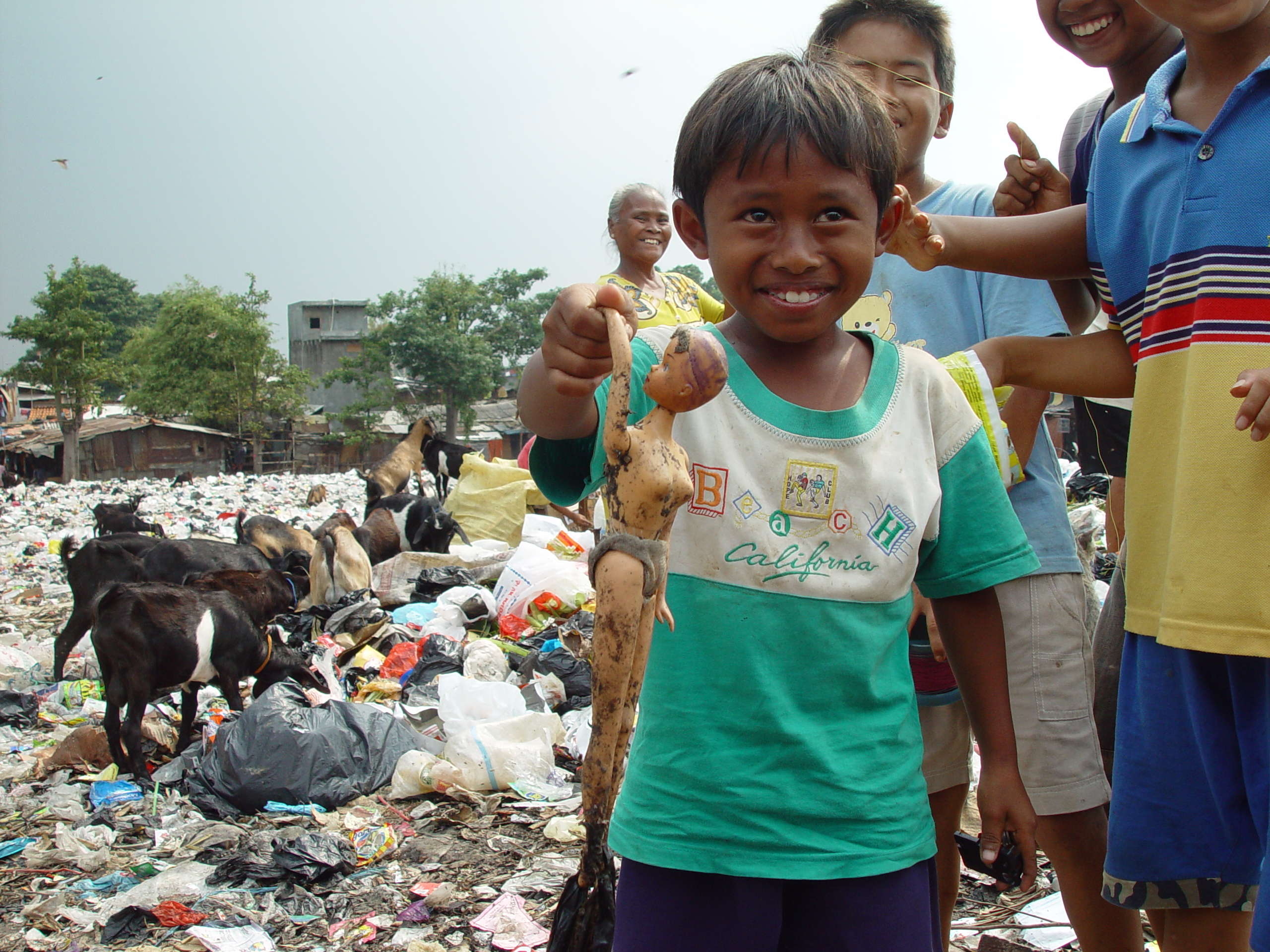 A boy from an East Cipinang trash dump slum shows his find, Jakarta Indonesia.